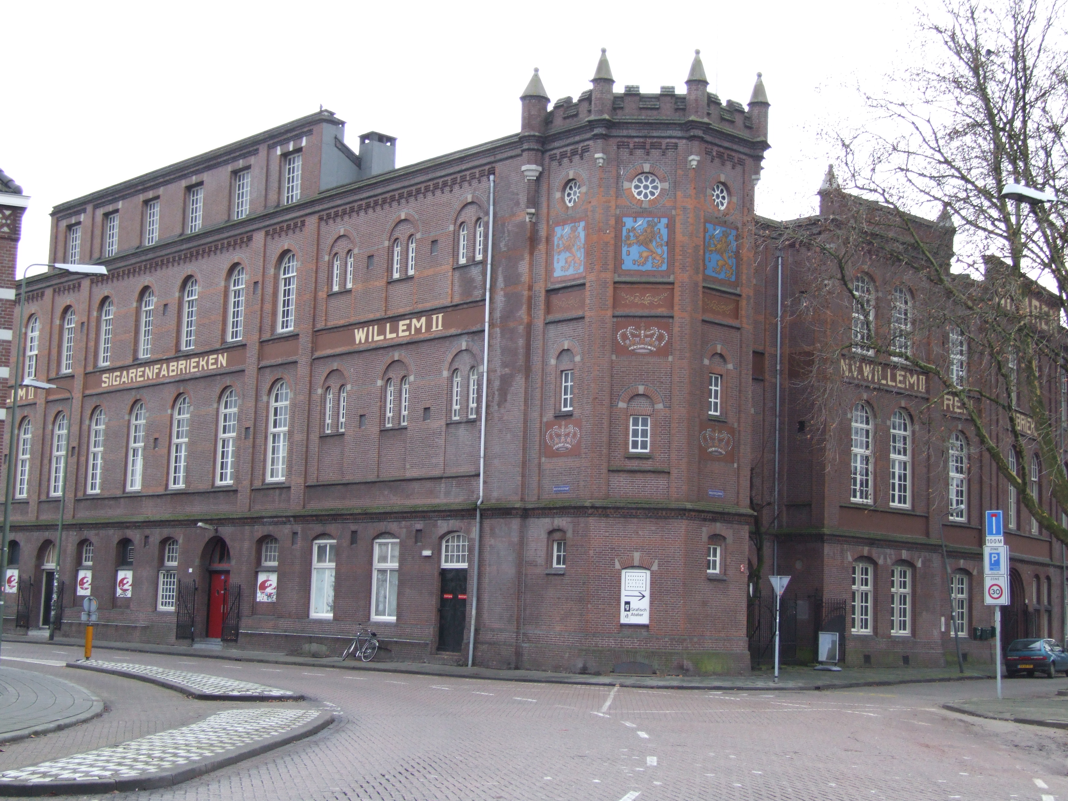 Picture of concerthall w2 at the corner of Boschdijkstraat and Boschveldweg in 's-Hertogenbosch, the Netherlands. The concerthall is based in the monumental building of the former factory of the Willem II cigarcompany.